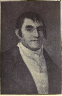 Joshua Mauger - merchant in Halifax, Nova Scotia; member of British parliament. Note that the dates of his life (1749-1770) in the publication of the Collections of the NS Historical Society are incorrect.